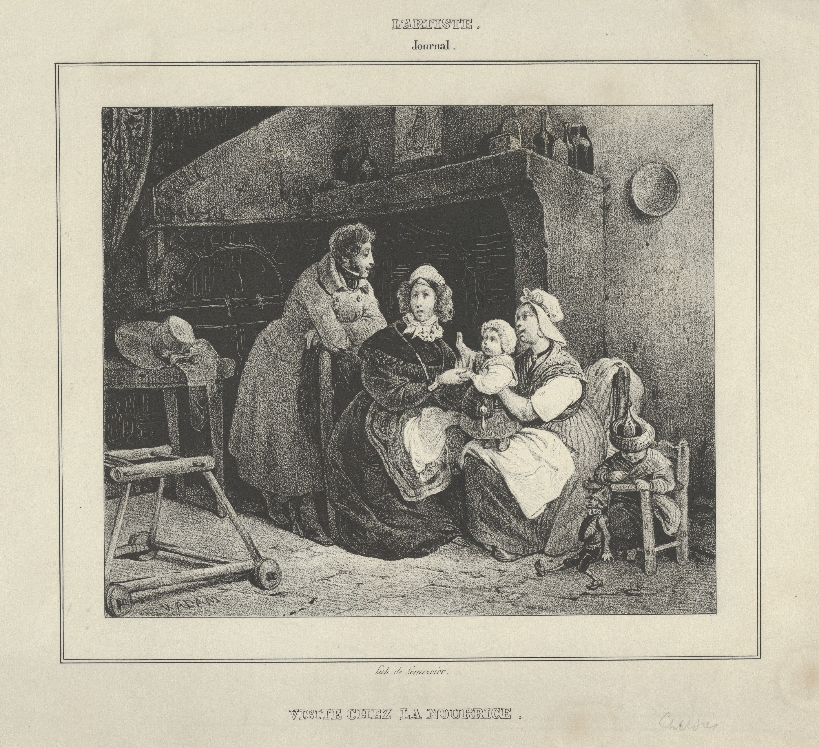 Print; Prints